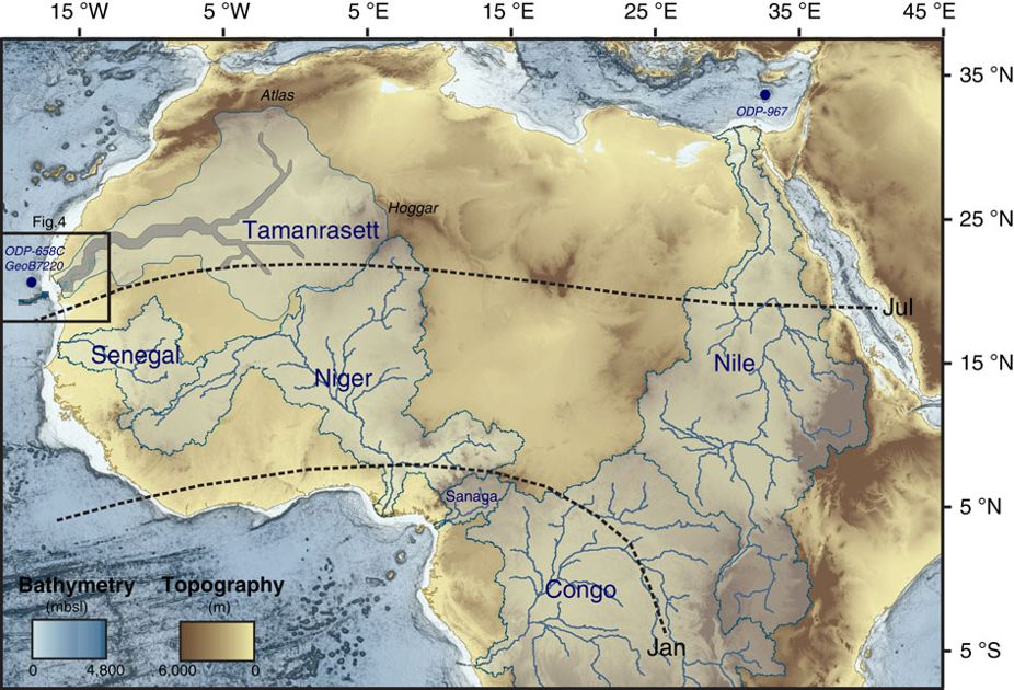 Map of the main rivers of the Mediterranean, West African Tropical and Equatorial margins and associated watersheds. The present-day active Nile, Senegal, Niger, Sanaga and Congo rivers watershed are drawn in light blue (adapted from the USGS HydroSHEDS database). The outlines and the main course of the Tamanrasett paleowatershed are drawn in blue and grey, respectively. The newly identified Tamanrasett paleodrainage as well as Cap Timiris Canyon are drawn in dark blue.